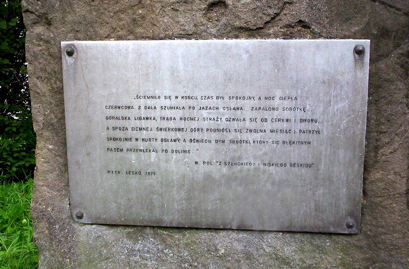 One of tablets in Bieszczady and Beskid Niski dedicated to Polish writers describing that region (Poland). This one in Rzepedź is quoting Wincenty Pol.